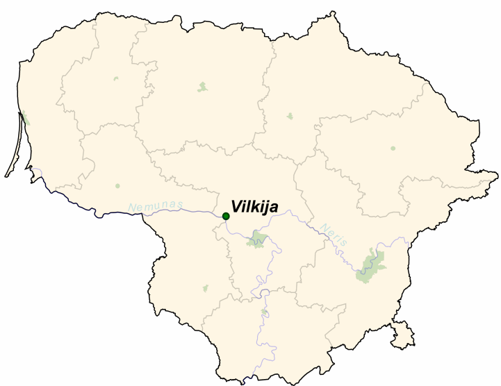 Vilkija on the map of Lithuania